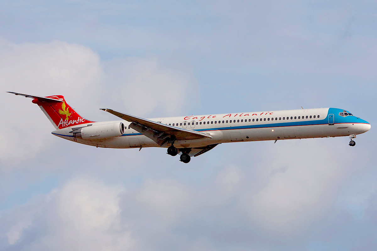 Eagle Atlantic Airlines McDonnell Douglas MD-82 on finals at Barcelona Airport